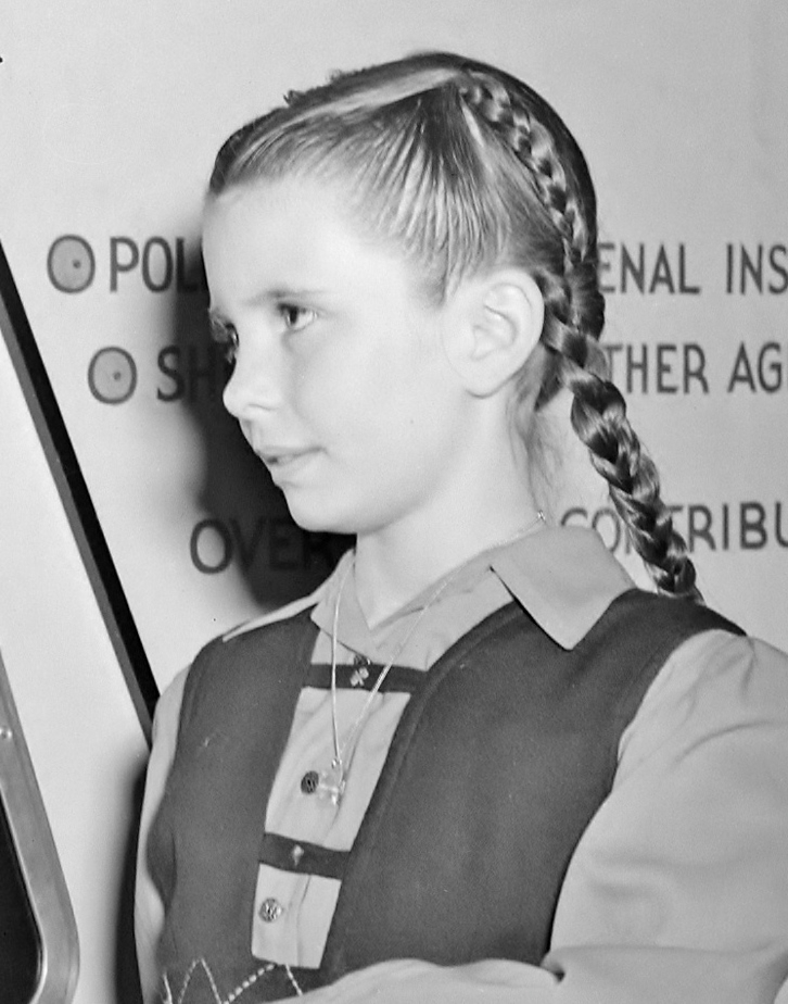 A Special Agent of the Federal Bureau of Investigation taking the one hundred millionth fingerprint, represented by Miss Margaret O'Brien, a movie star.